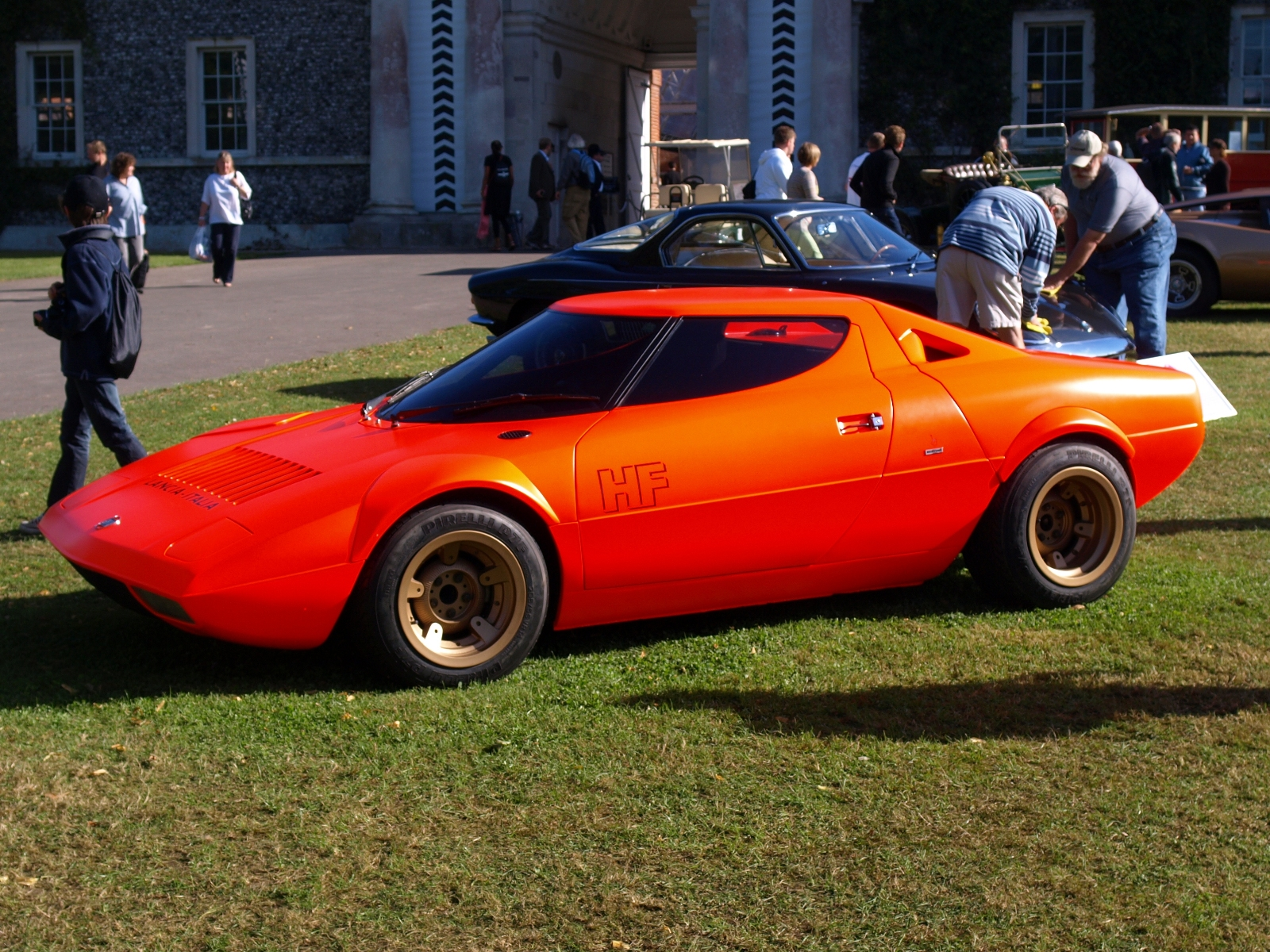 Lancia Stratos HF at the Goodwood Festival of Speed 2008.